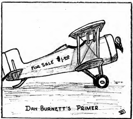 The $1 Plane.